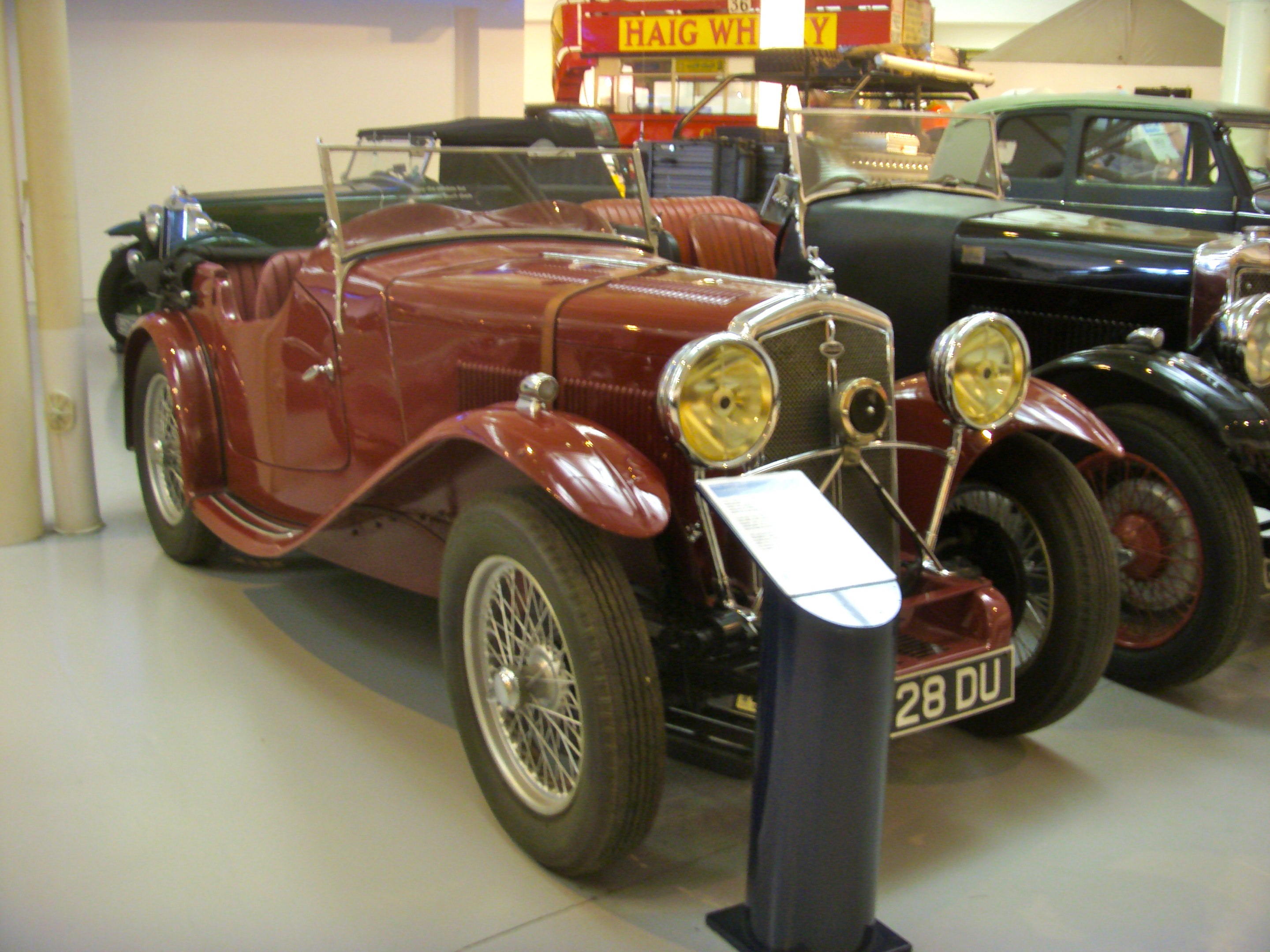 1932 Wolseley Hornet EW Special 2328DU (DVLA) manufactured 1932, 1271cc